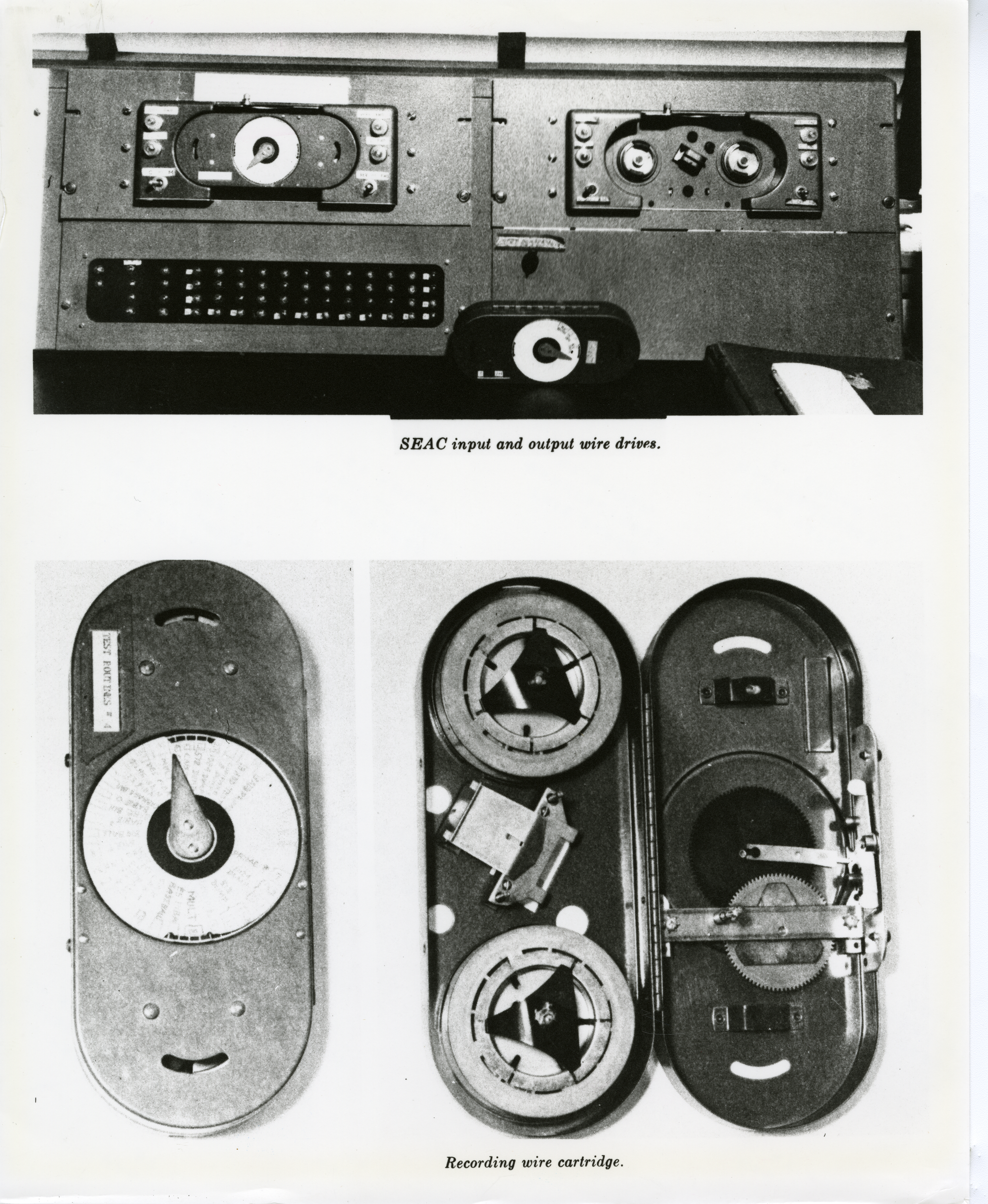 SEAC input and output wire drives [top] and recording wire cartridge [bottom]